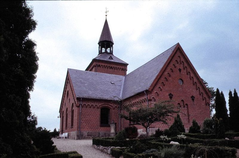 Bregninge Church in Svendborg Kommune from apr. 1100